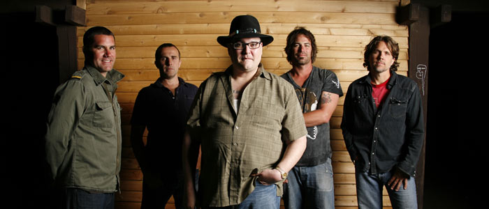 Blues Traveler Hops & Harvest Festival at PO